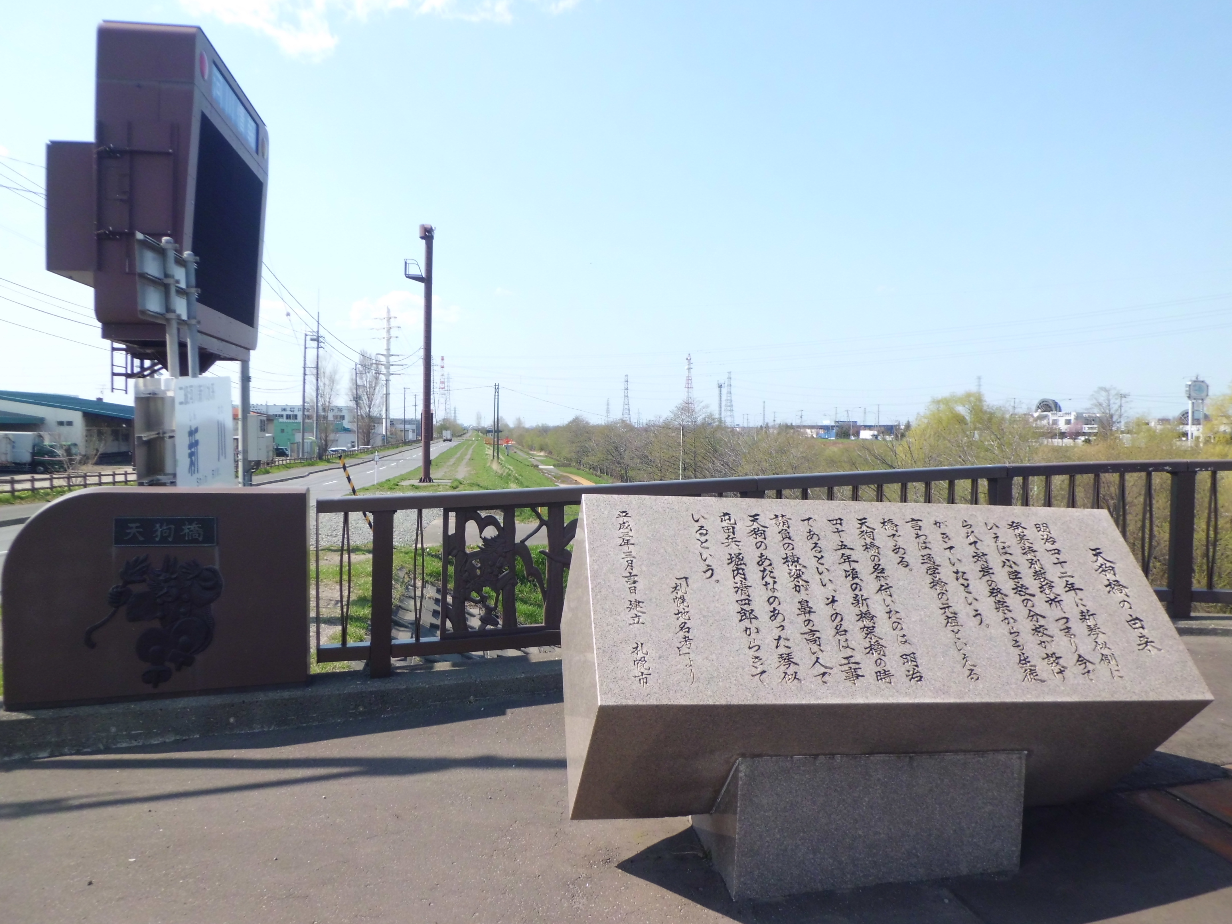 Monument of Tengu Brigde. Text is quated from "Study of place names of Sapporo."